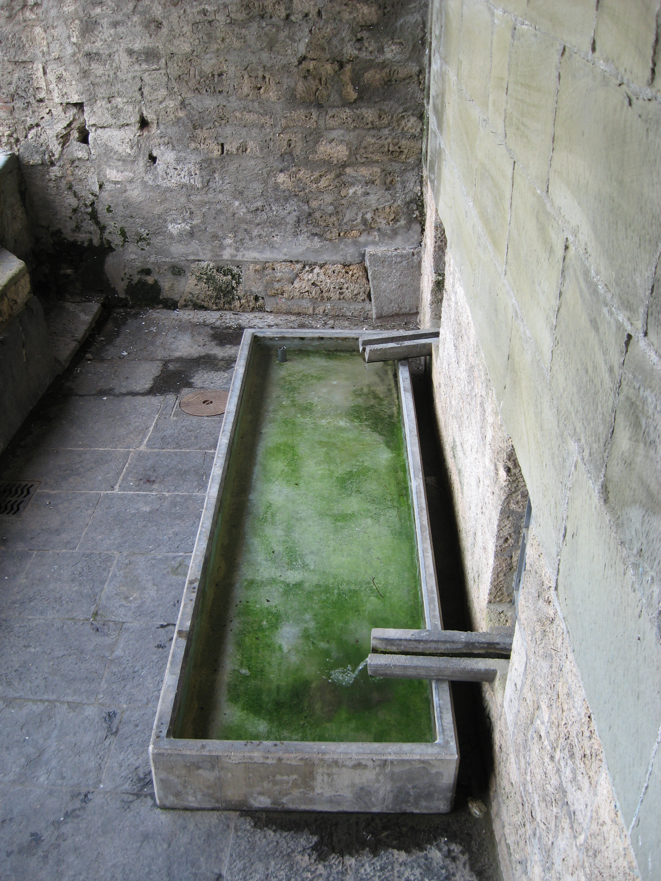 Fountain Stettbrunnen at Bern